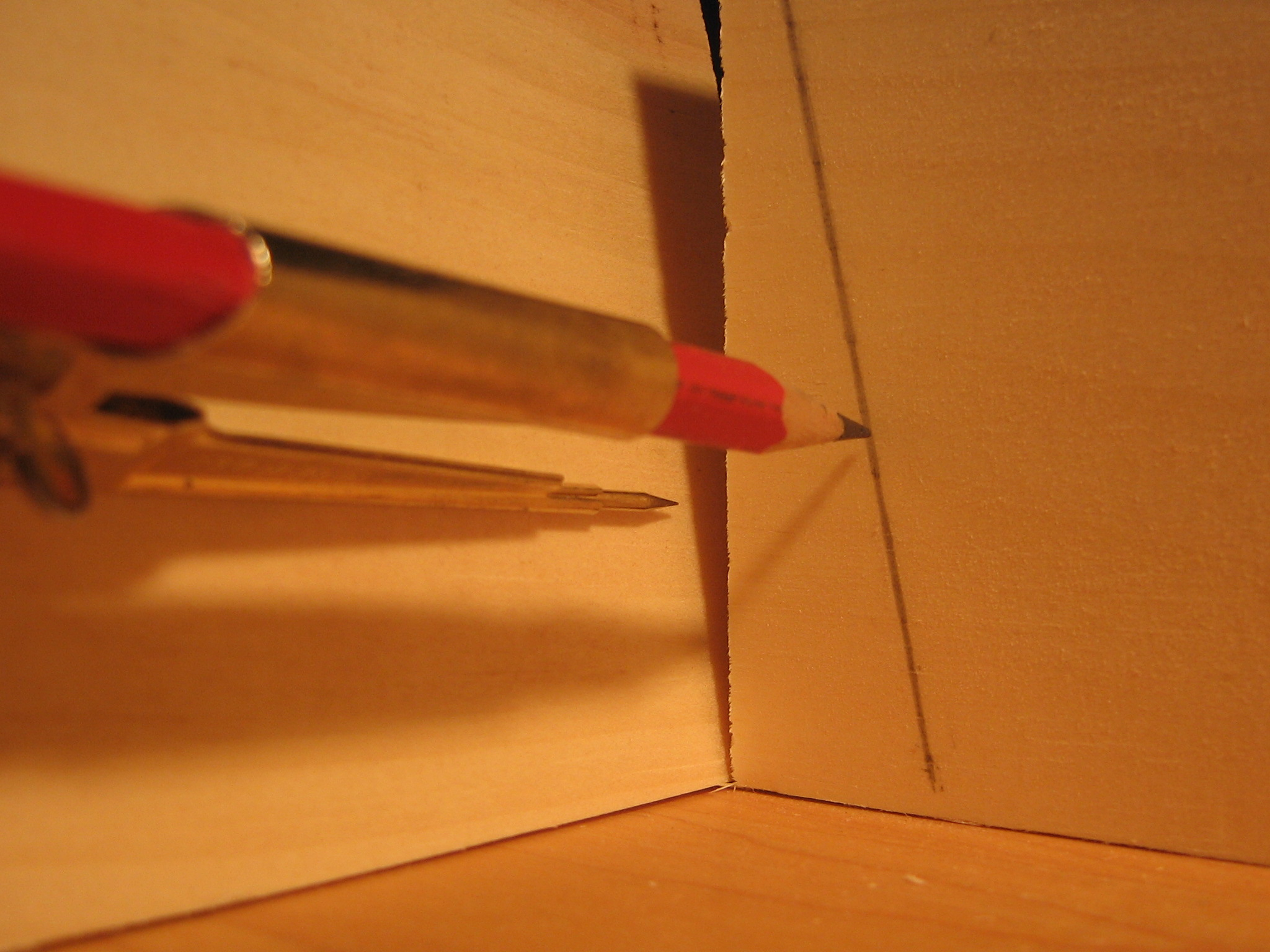 This a scribe compass scribing a piece of 1"X4" into another piece that is out of plumb. The location is Johnalden's wood shop.